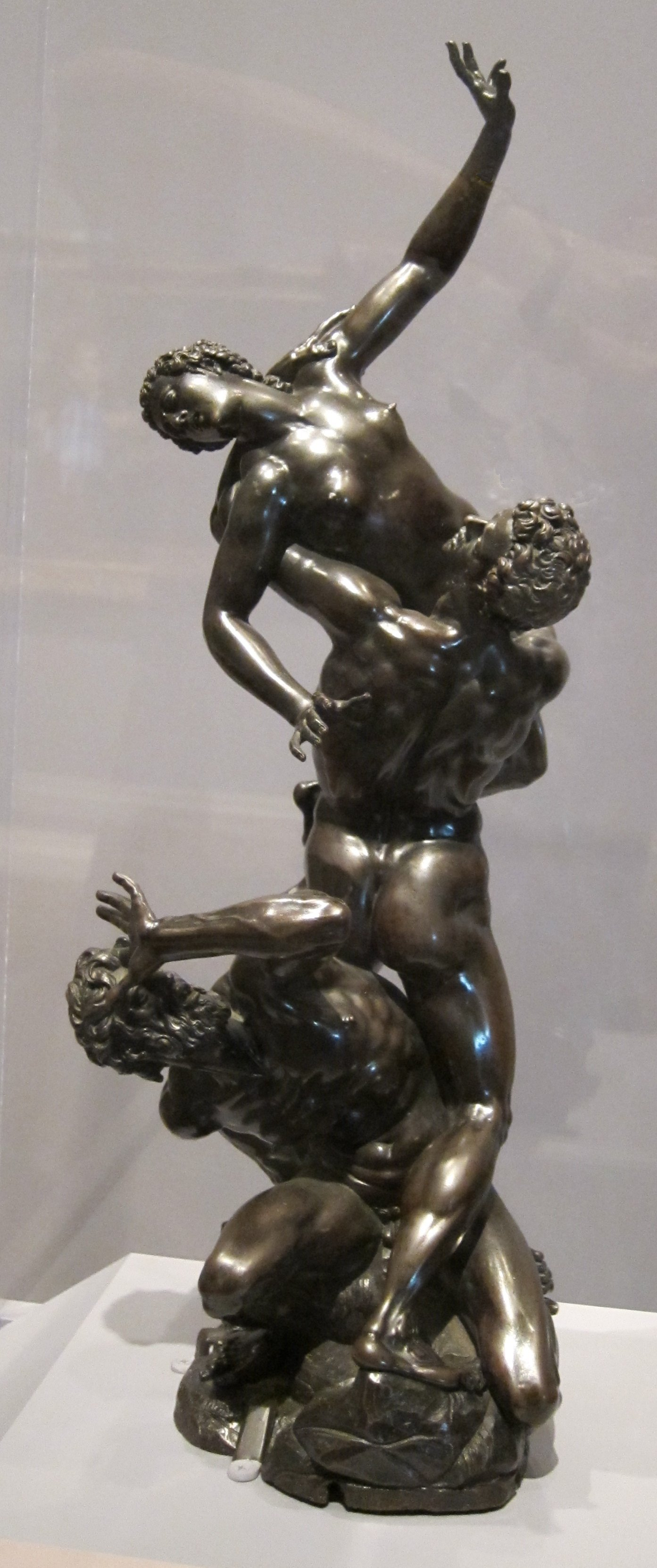 The Rape of a Sabine Woman, bronze sculpture after Giovanni Bologna (Giambologna), 1600-1650, 23 in. high, Honolulu Academy of Arts. This reduction possibly by Pietro Tacca.